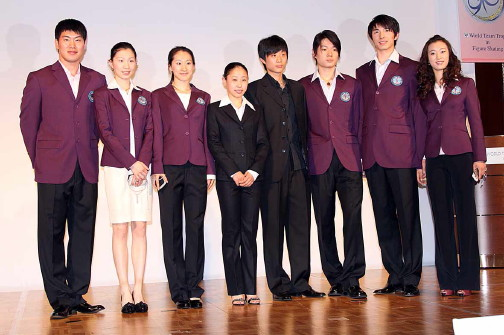 Team China at the 2009 ISU World Team Trophy in Figure Skating. From left to right: Zhang Hao, Zhang Dan, Liu Yan, Xu Binshu, Chao Yang, Wu Jialiang, Zheng Xun, Huang Xintong